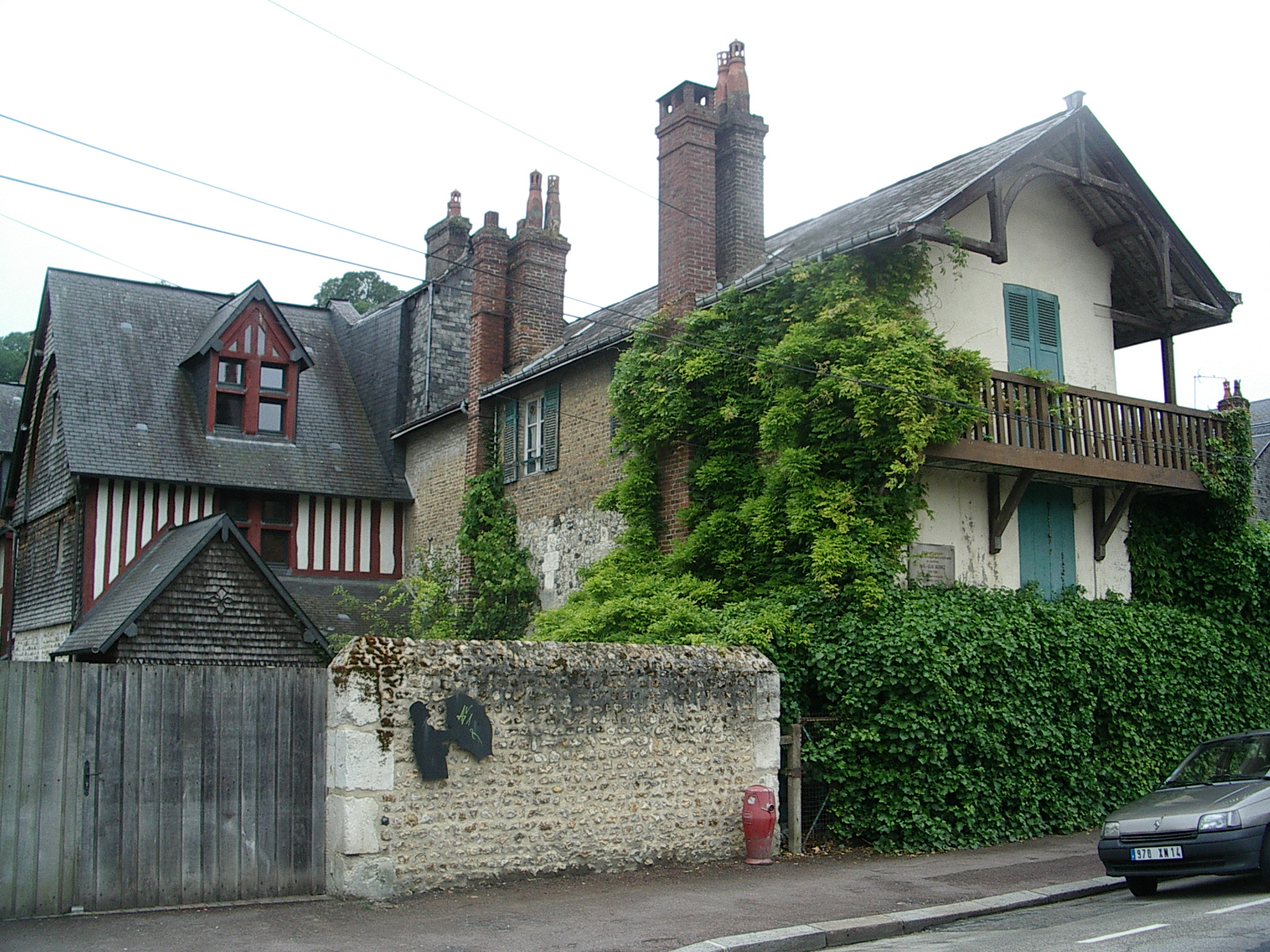 Maisons Satie, the home museum of Erik Satie in Honfleur, France